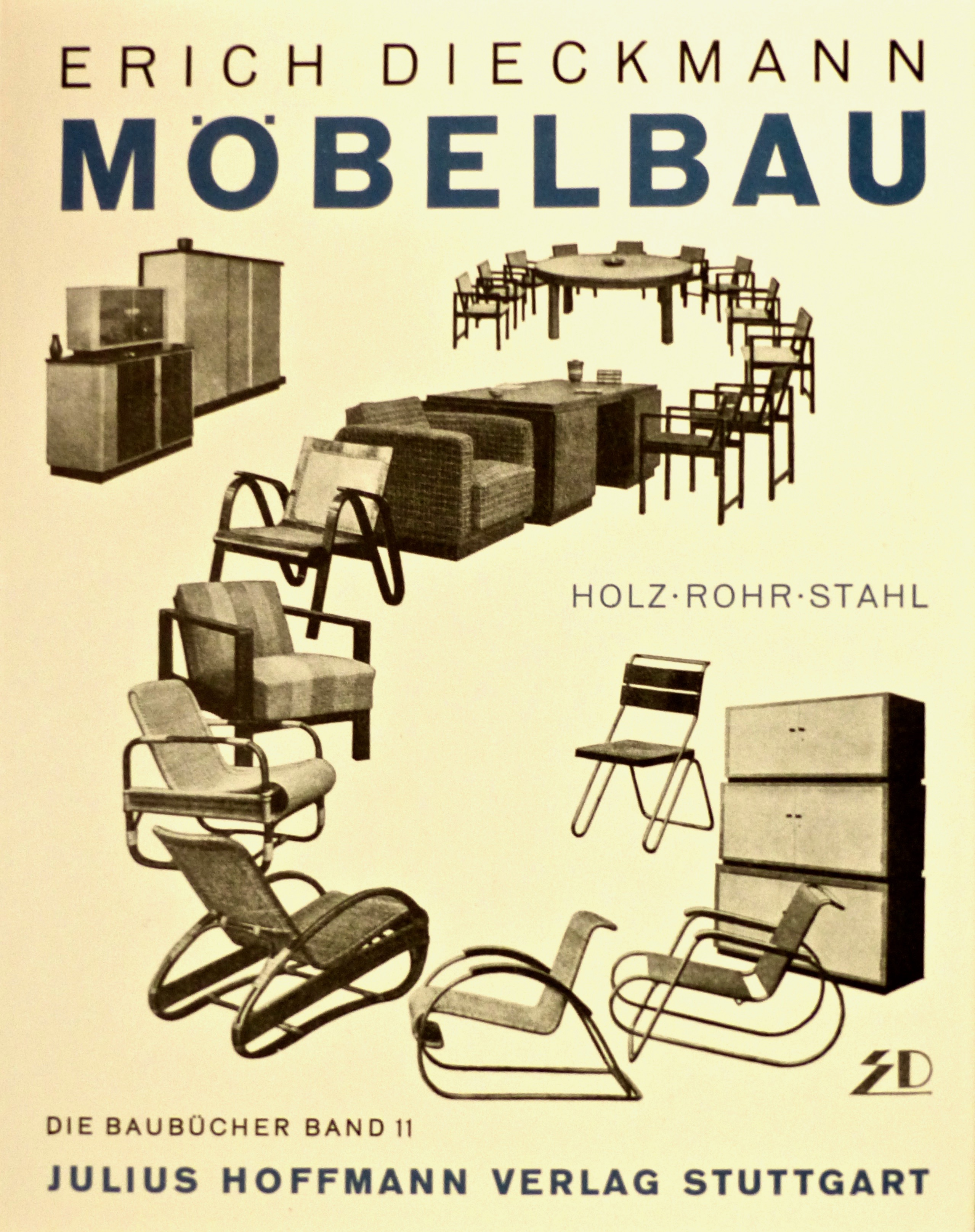 Book cover of Erich Dieckmann: "Möbelbau – Holz – Rohr – Stahl" (= Die Baubücher, Band 11). Julius Hoffmann Verlag, Stuttgart 1931